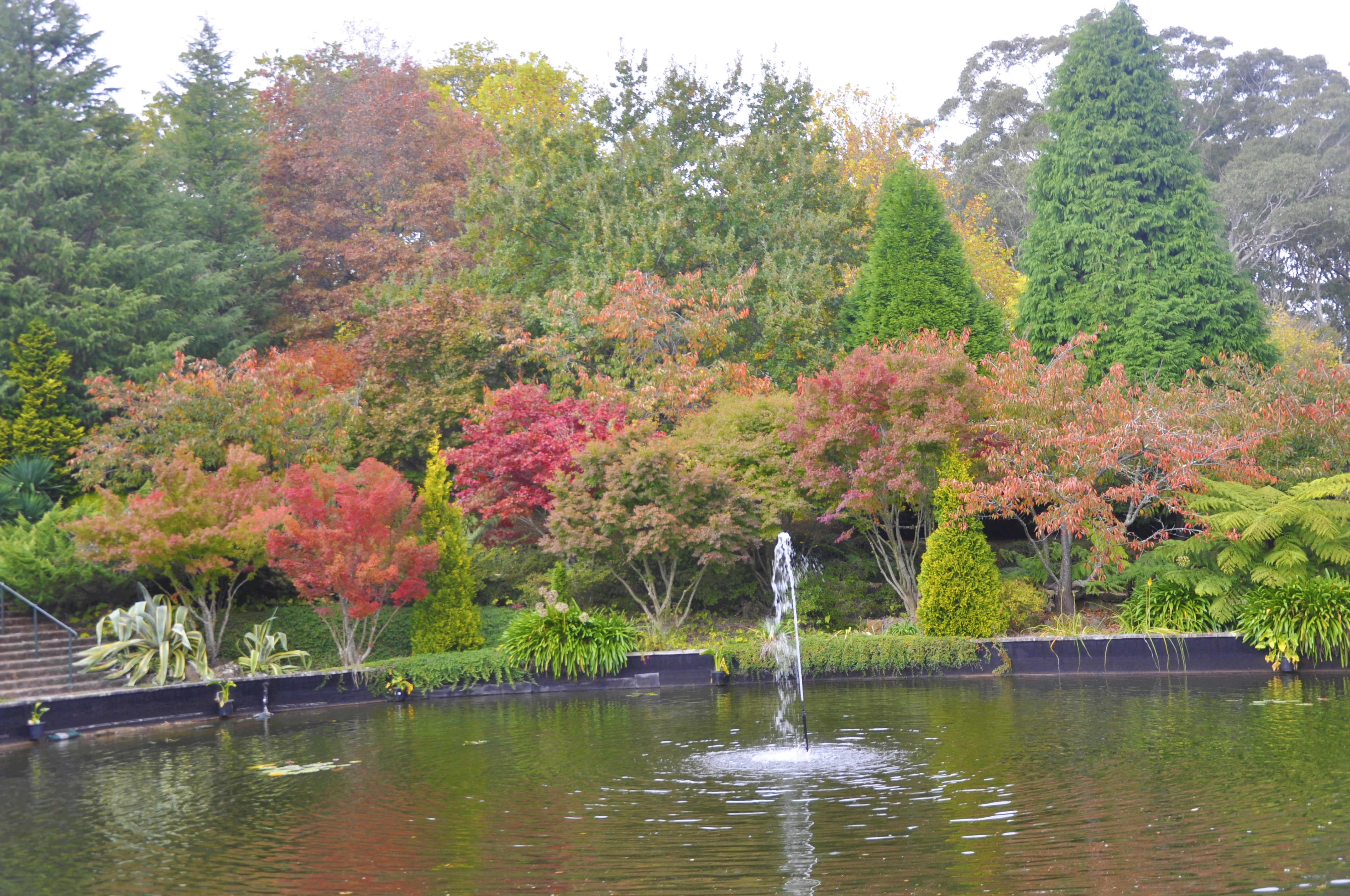 The autumn colour of the Bebeah Private Garden in the town of Mount Wilson, New South Wales. This photo has been taken by Prof. Chen Hualin.